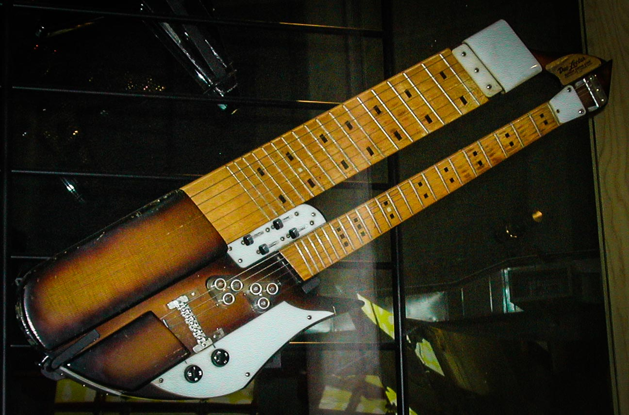 In 2001, with the opening of the "EMP" museum of Seattle (now called the Museum of Pop Culture), the then curator found one of the original 1962 DuoLectars at a music store in Seattle. Over 56 years it was electronically and ergonomically redesigned to be the "Touch Guitar" of today. (Photo taken by Dave Bunker.)